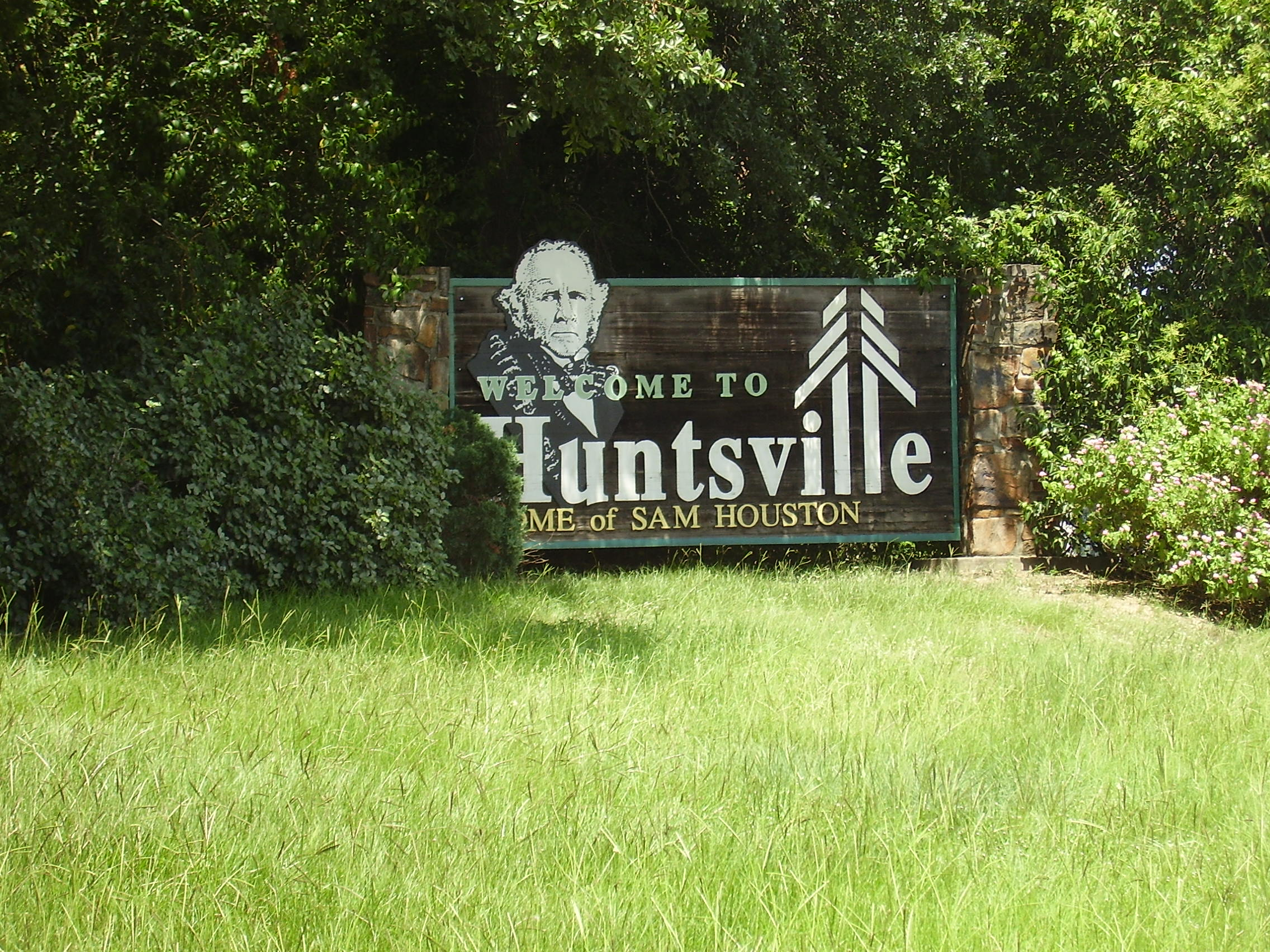 Huntsville, Texas sign - "Welcome to Huntsville, Home of Sam Houston"